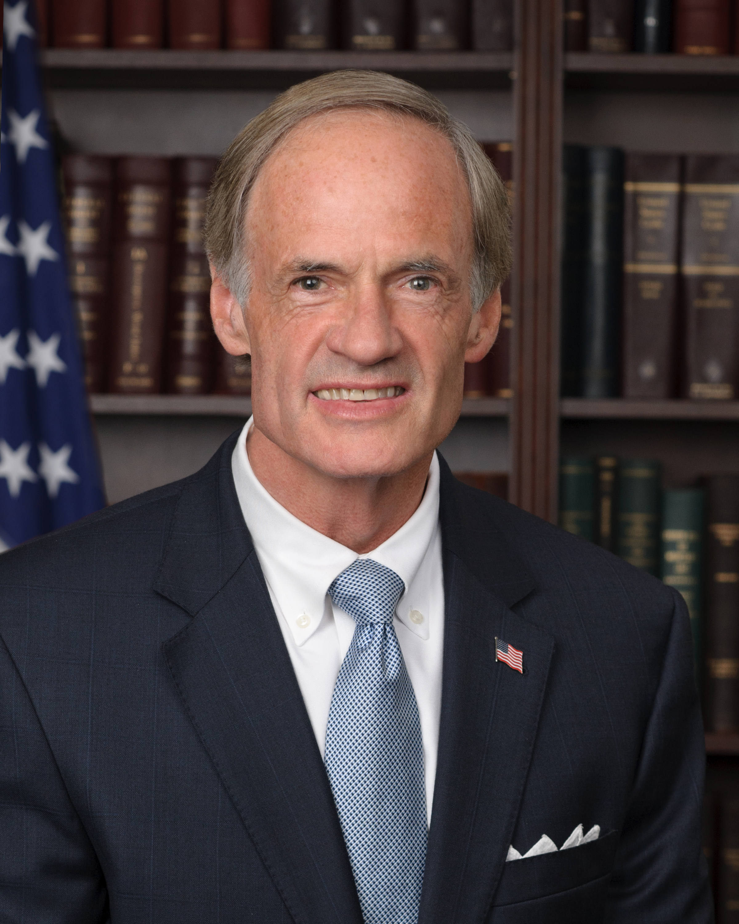 Official portrait of U.S. Senator Tom Carper (D-DE).